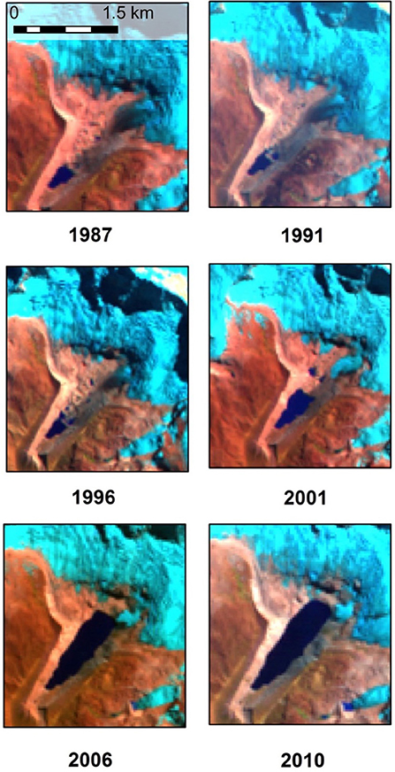 Figure 2. Satellite imagery documenting the evolution of Lake Palcacocha from 1987 to 2010. Glacier ice is shown in cyan, rock and debris in orange, and water in dark blue. The lake volume increased from about 2 × 106 m3 in 1987 to 17 × 106 m3 in 2010. Images acquired by Landsat 5 (1987, 1991, 1996, and 2001) and Landsat 7 (2006 and 2010), all scenes from July or August.